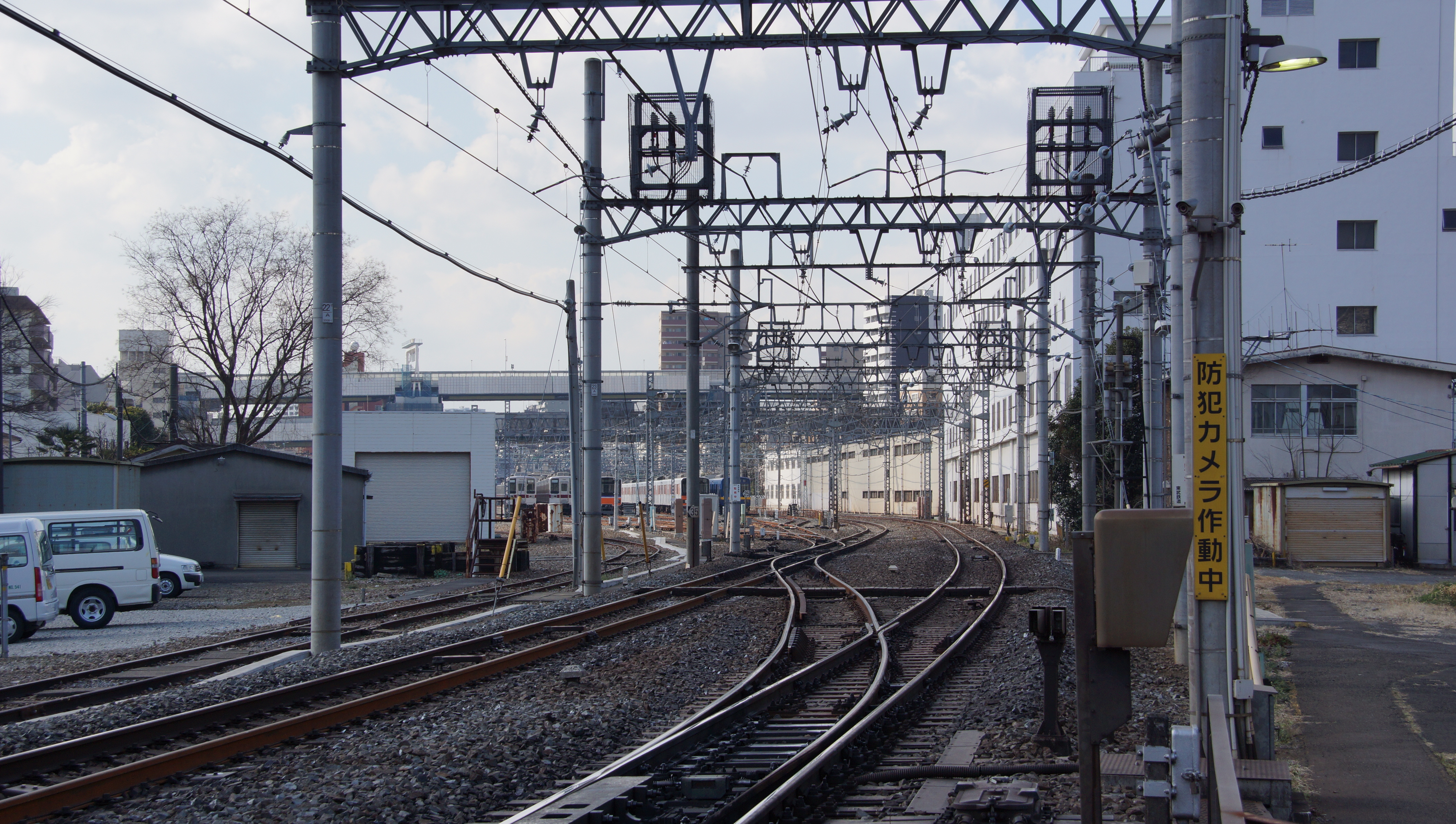 Shimo-Itabashi stabling sidings west of Shimo-Itabashi Station on the Tobu Tojo Line, with Tobu 10000 and 50000 series EMUs stabled